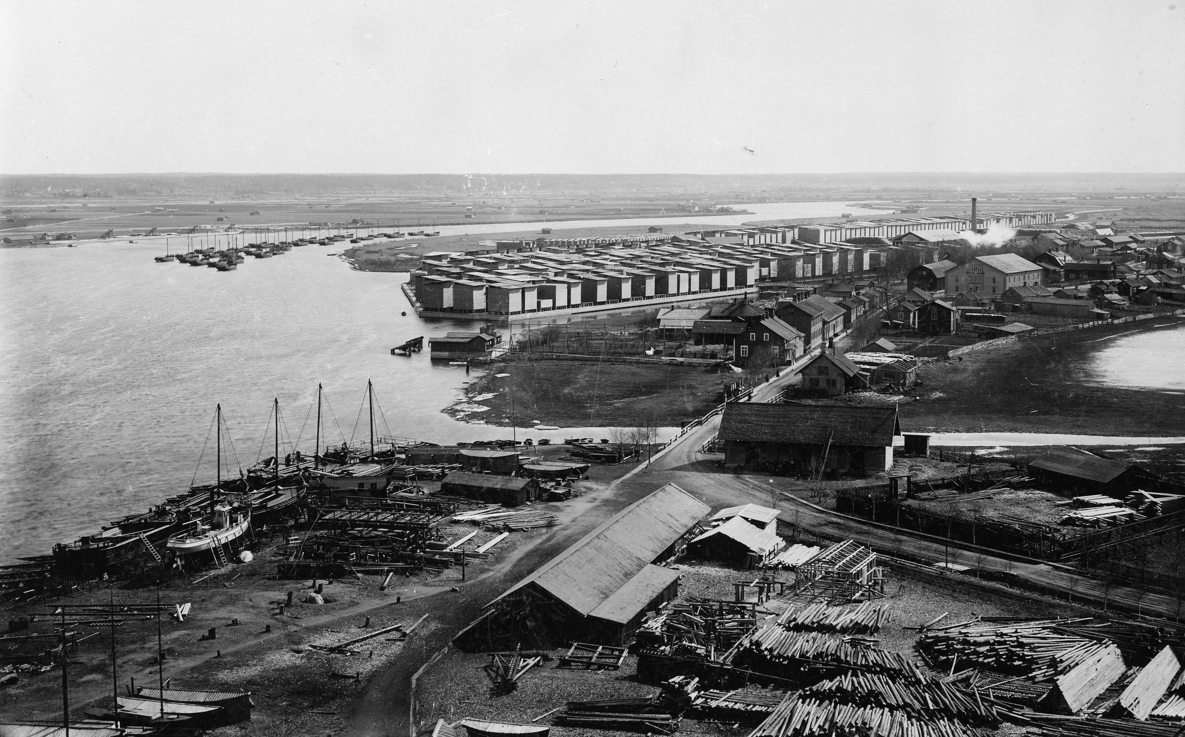 Aittaluoto area by the Kokemäenjoki river in the 1890s, Pori, Finland. The Old Shipyard and Seikku sawmill.